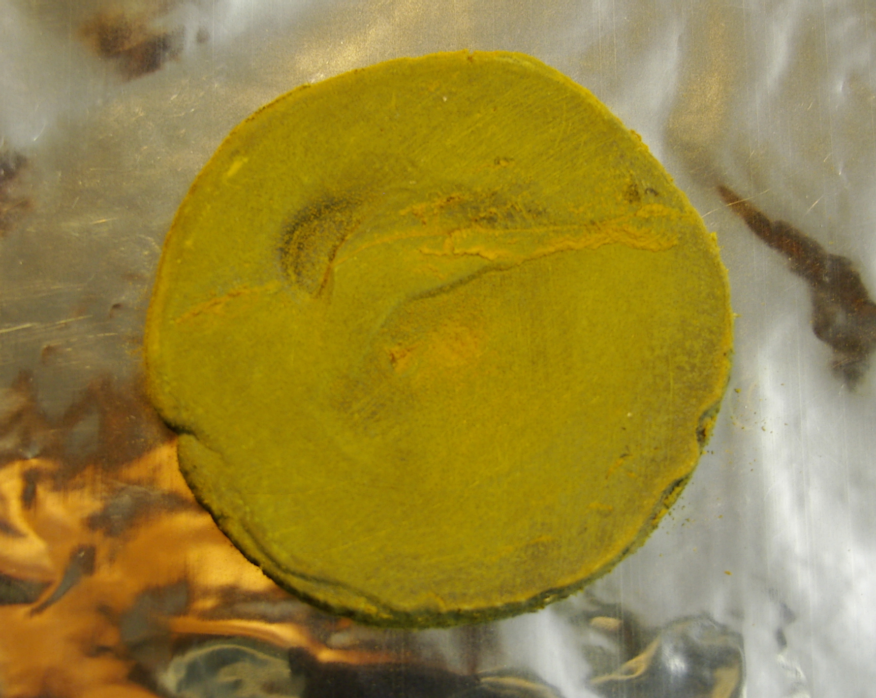 The chemical element Europium, a ~150g disc, dia. ca. 10cm, oxidized on air, coated with europium(II) carbonate. Typical metal purity: 99.95 %.